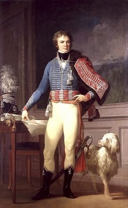 Portrait of Frederik Caspar Conrad Frieboe